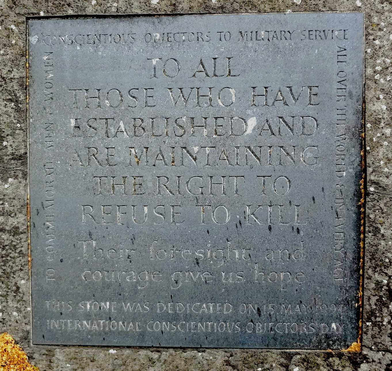 Monument commemorating "men and women conscientious objectors all over the world and in every age", unveiled in 1994, in Tavistock Square, London.